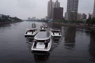 solar-power boat G2